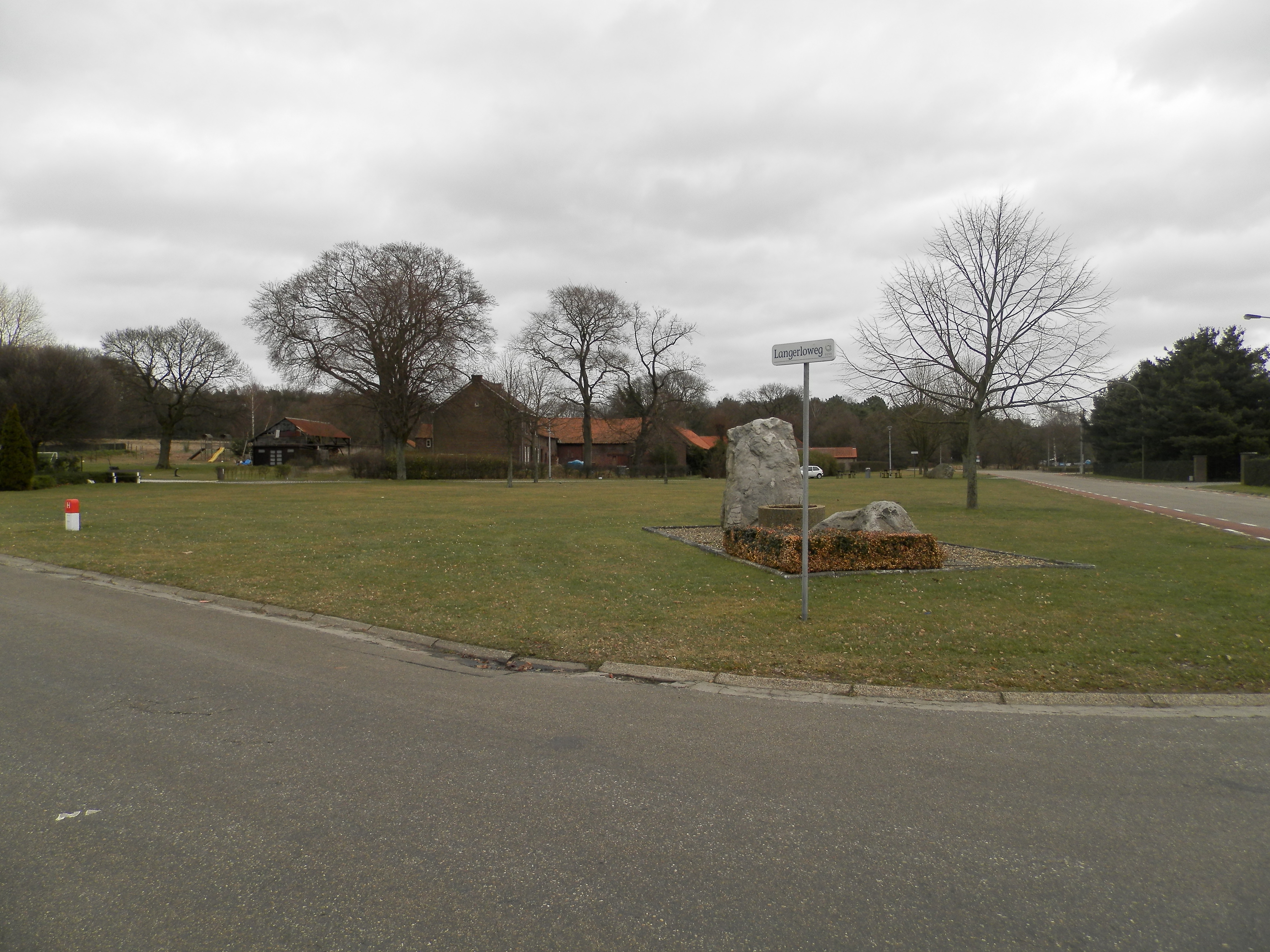 Langerlo